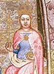 Sofia of Bavaria